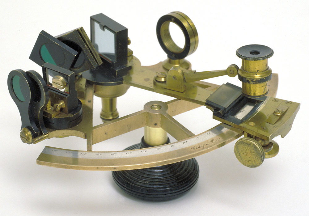 AuthorLouis-Félix Védy firmDescription